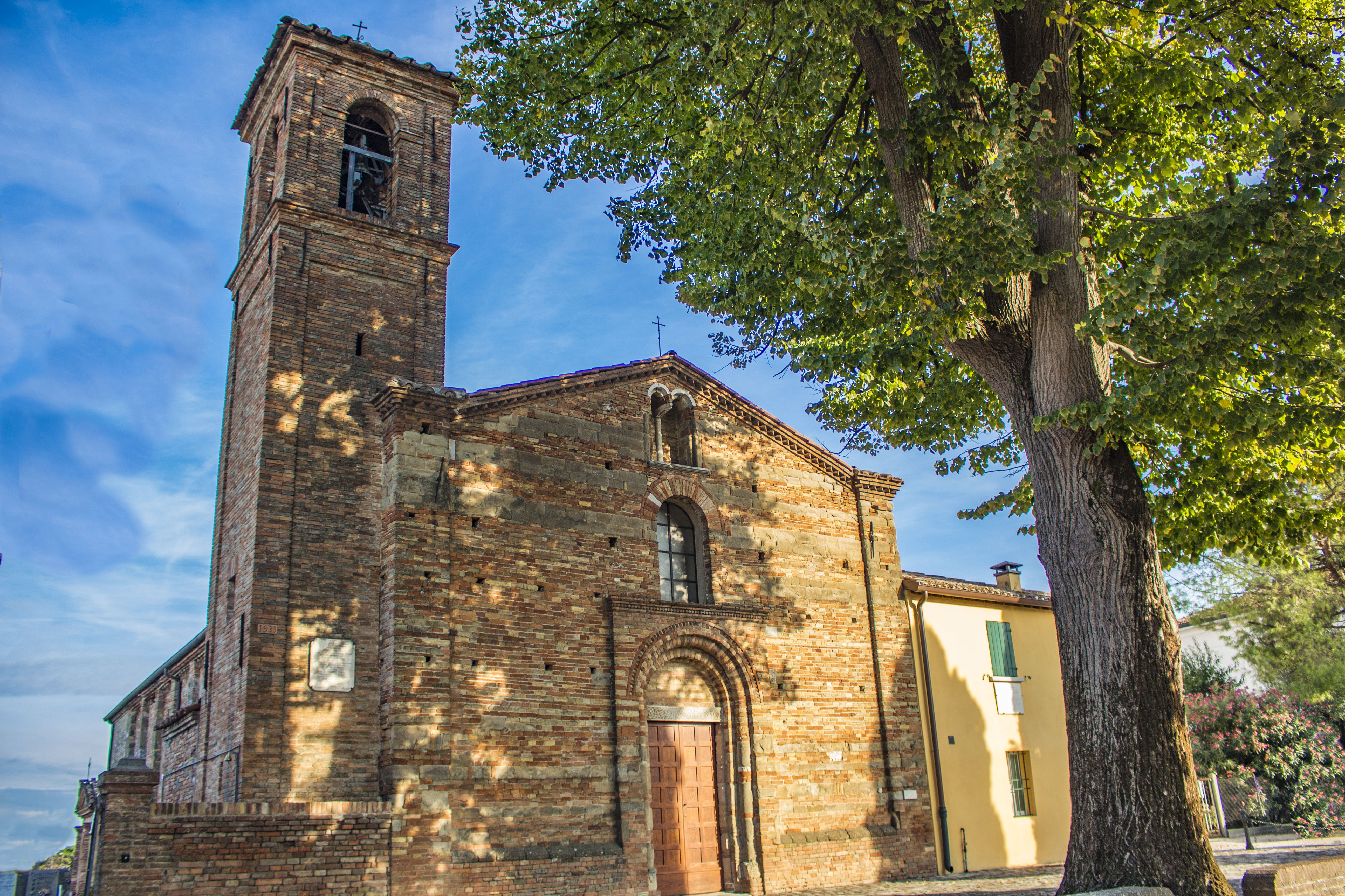 This is a photo of a monument which is part of cultural heritage of Italy.